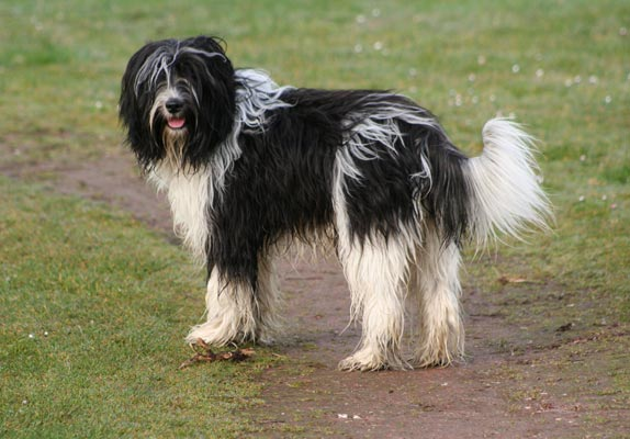 Nederlandse Schapendoes / Dutch Sheepdog